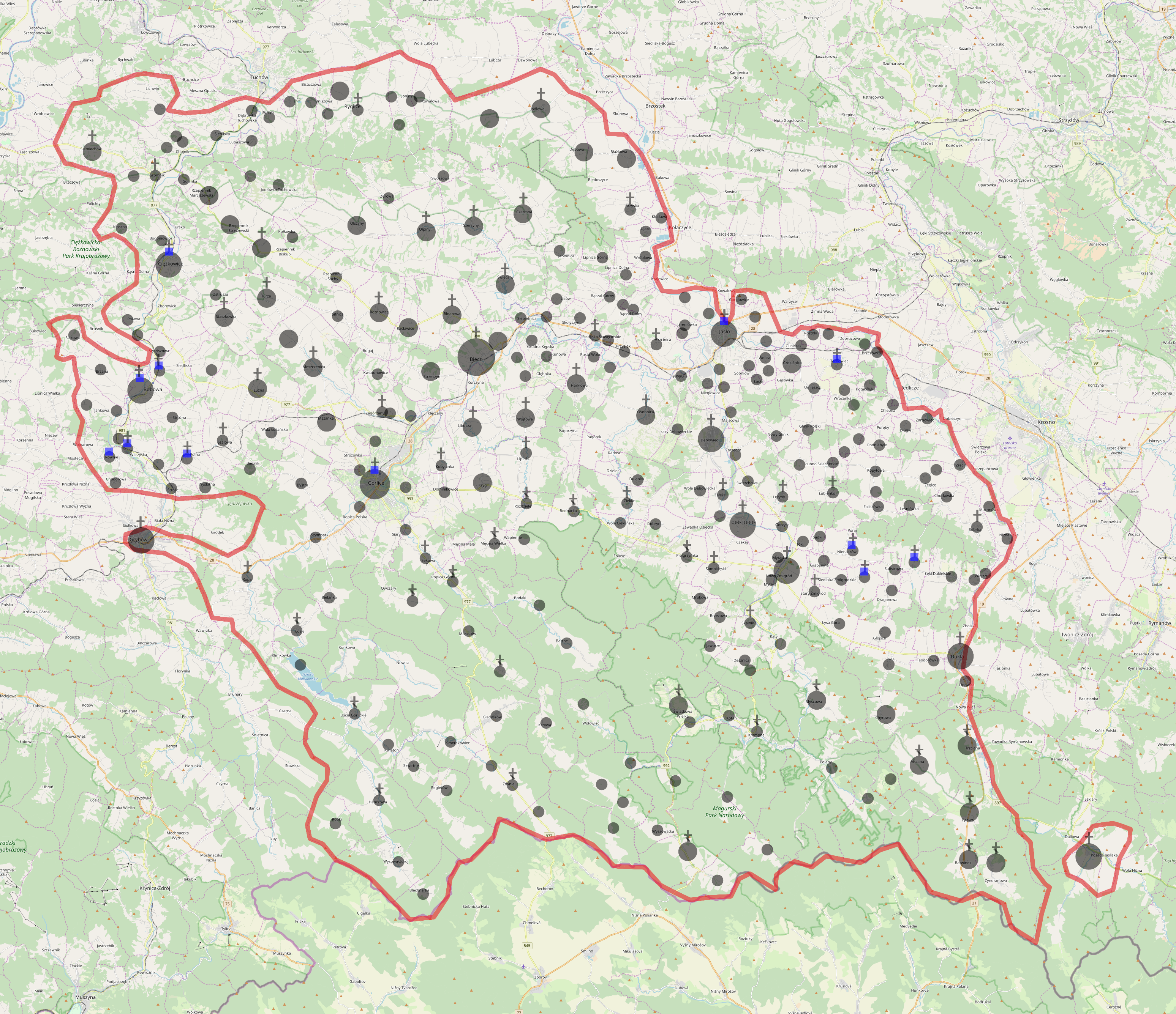 Biecz County at the end of the 16th century red line - County border; black dots - towns and villages; crosses - parishes; blue squares - protestant communities